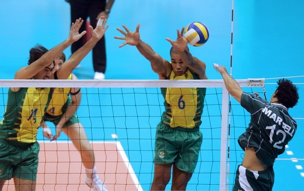 Mexican volleyball player Jose Martell spikes againts brazil volleyball superstars Samuel Fuchs and Rodrigao.